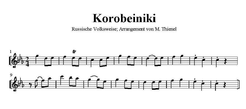 Lyrics of "Korobeiniki" (AKA Tetris "Type A")